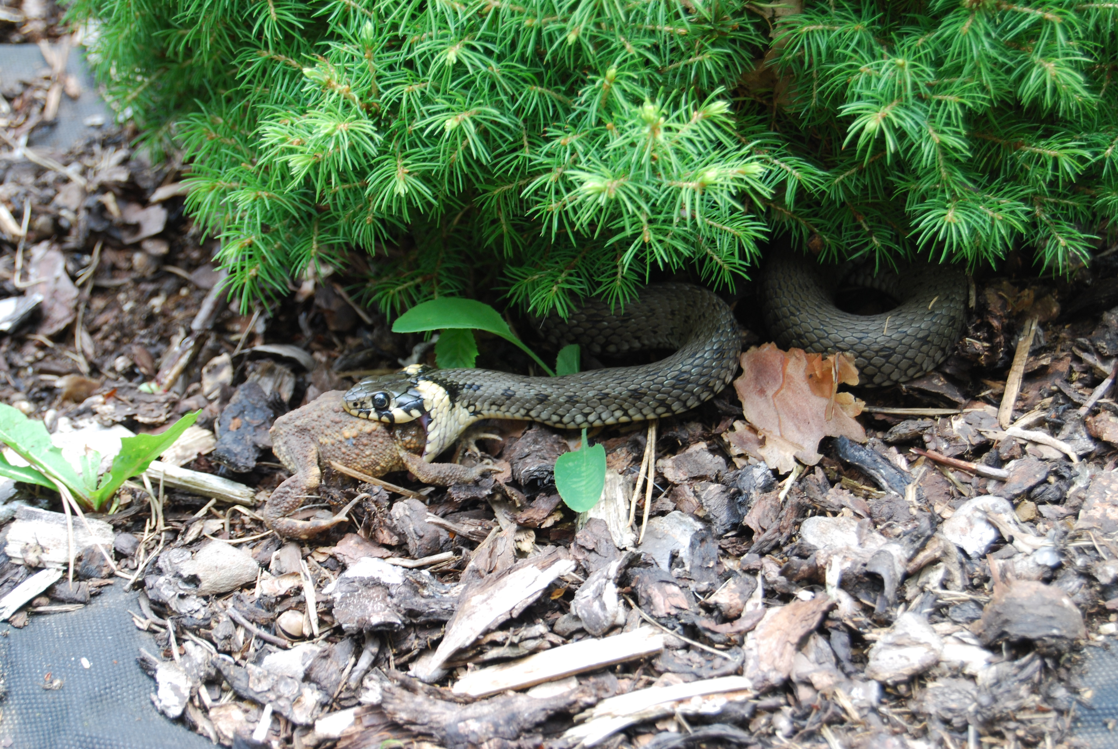 Natrix natrix eating Bufo bufo in Písek District, Czech Republic